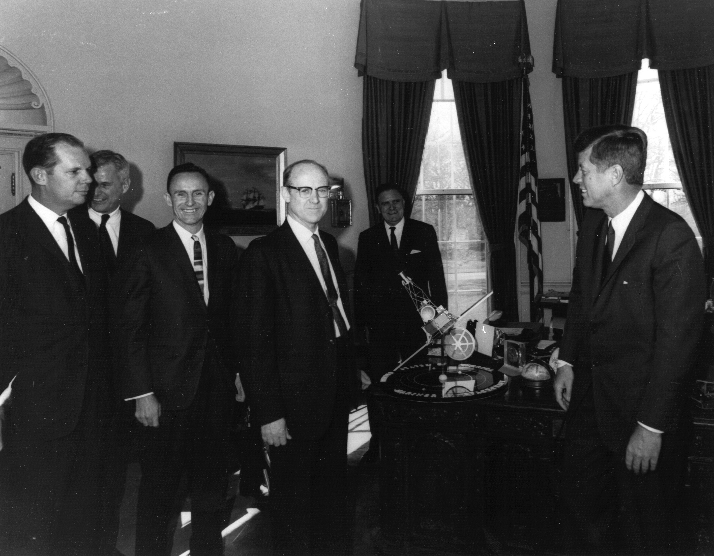 William H. Pickering, (center) director of NASA's Jet Propulsion Laboratory, presents a model of the Mariner 2 spacecraft to President John F. Kennedy. NASA Administrator James E. Webb is standing directly behind the model. According to 50th Anniversary: Mariner 2, The Venus Mission from NASA's Jet Propulsion Laboratory, the man at far left is Jack N. James and the man between him and Pickering is Robert "Bob" Parks.